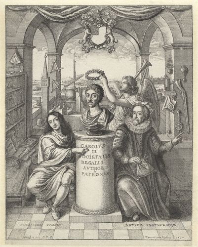 Frontispiece to 'The History of the Royal-Society of London'